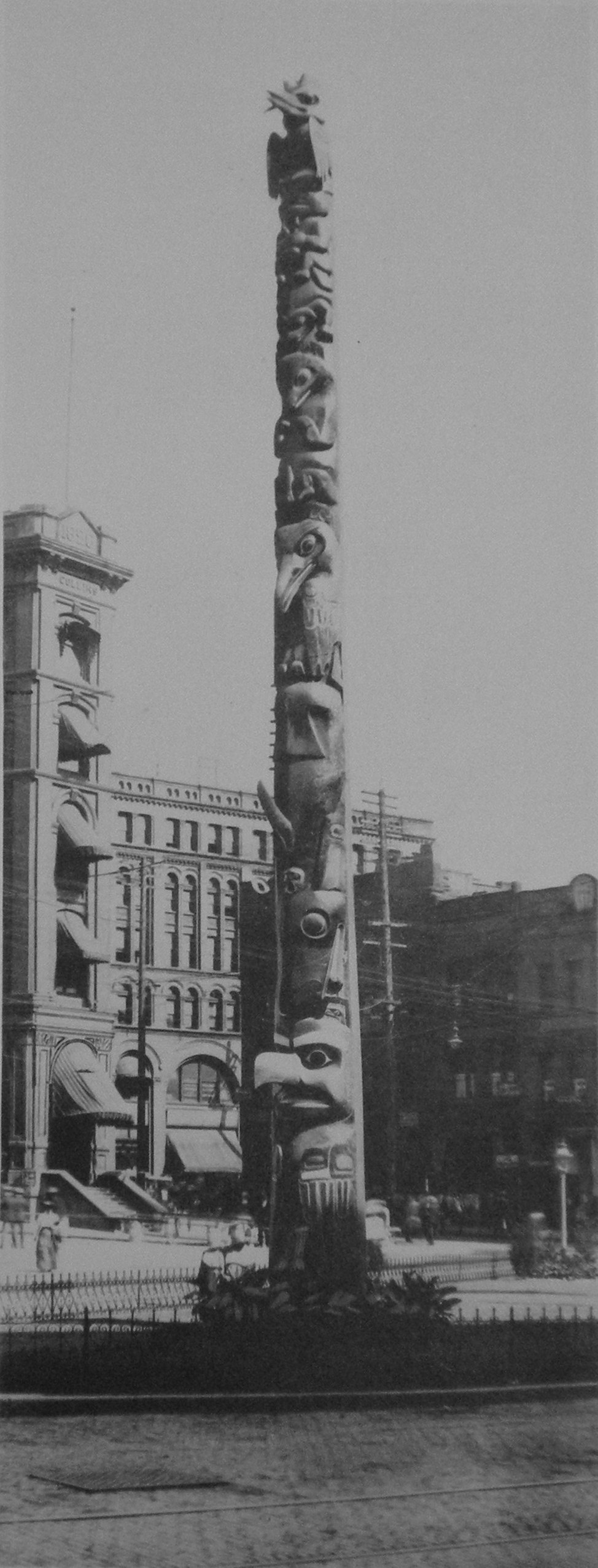 "Totem Pole - Pioneer Square". The current totem pole in this location is a replica of the one shown here. Pioneer Square, Seattle, Washington. Behind the pole is the Pioneer Building (still standing).